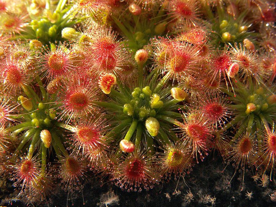 Drosera callistos 'Brookton' in cultivation